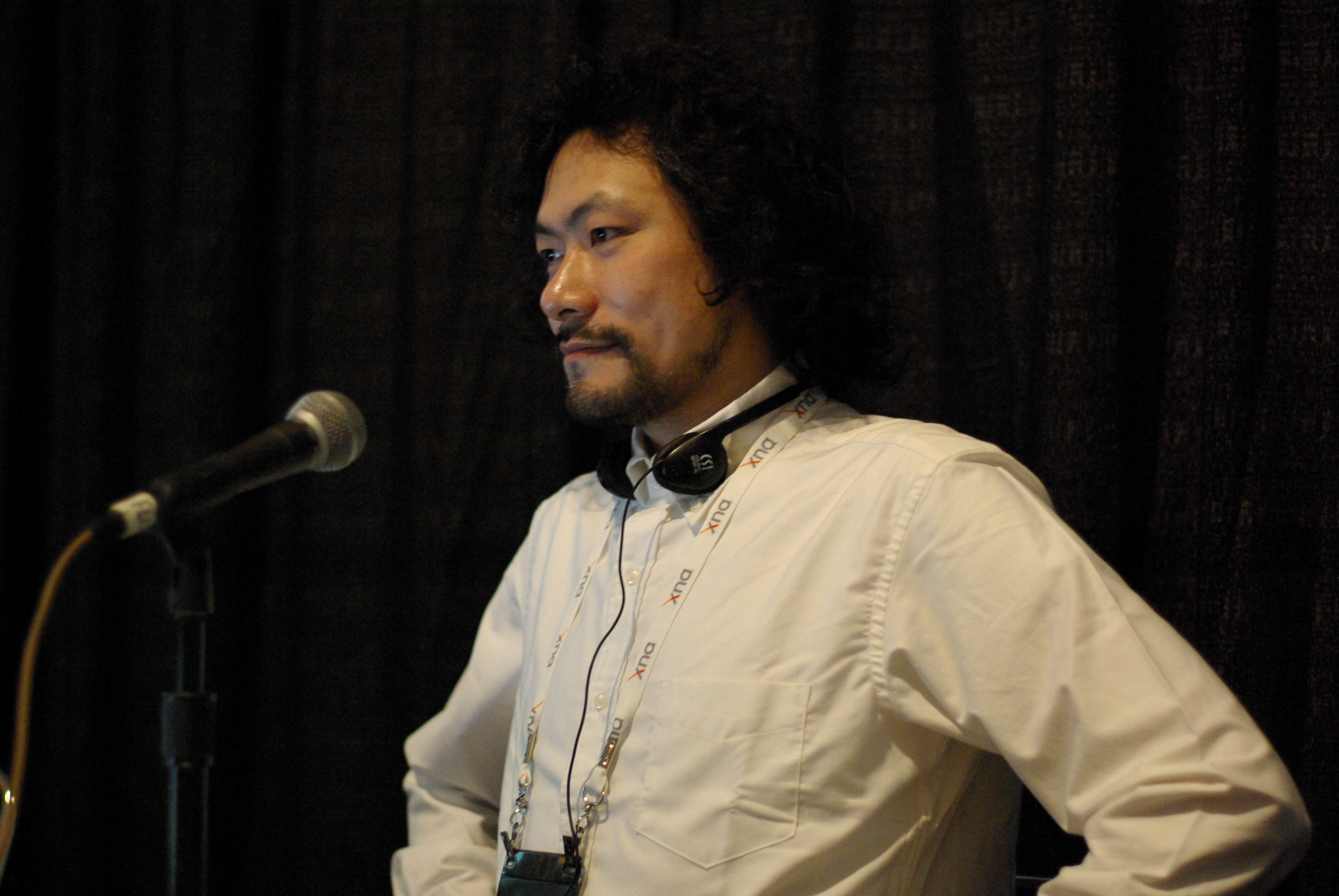 Koji Igarashi at the Game Developers Conference in 2007.